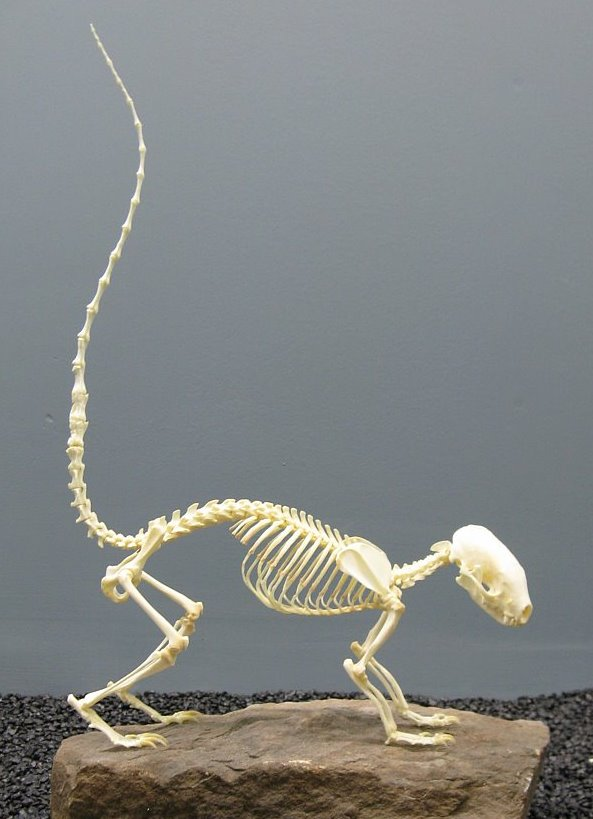 Hooded Skunk Skeleton on Display at The Museum of Osteology in Oklahoma City, Oklahoma.